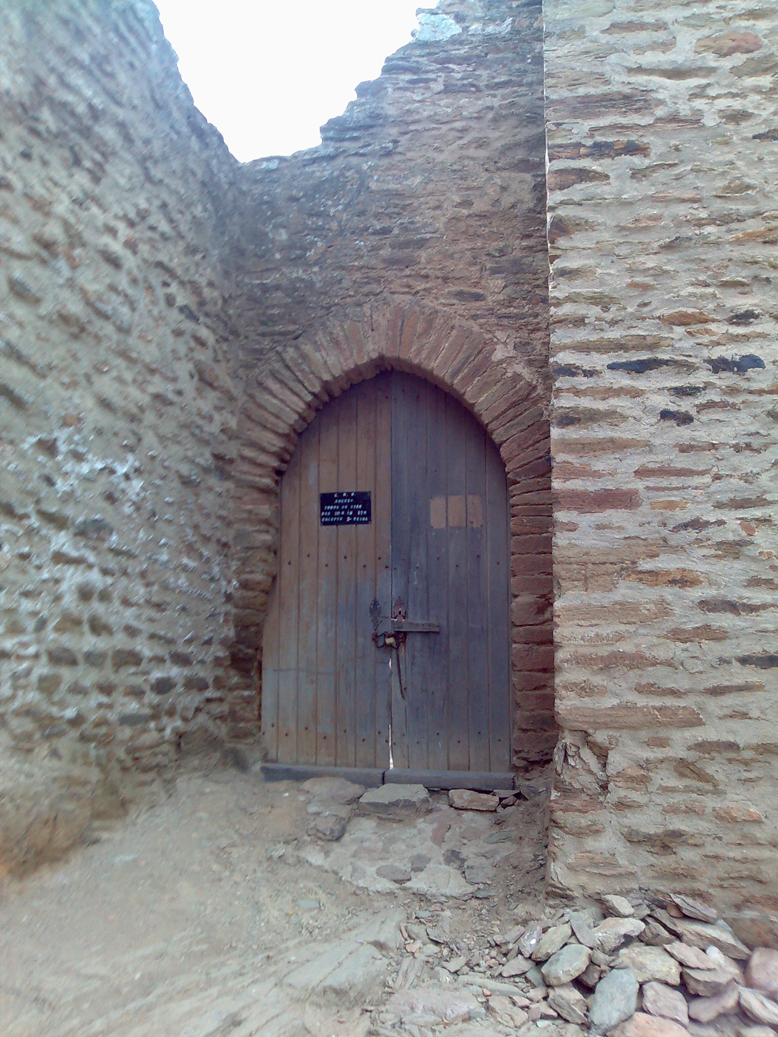 Noudar Castle entrance